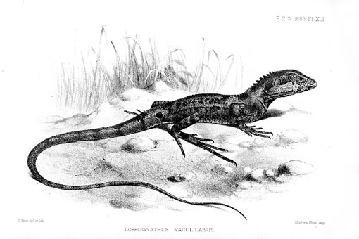 An illustration of the species Lophognathus maculilabris. Info from wesite, unchecked